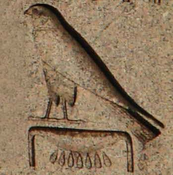 Close-up of Luxor Obelisk, and hieroglyphs.